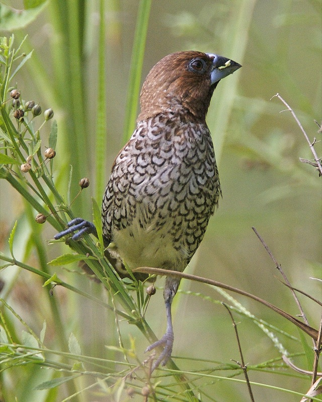 Scaly-breasted Munia Lonchura punctulata ssp Lonchura punctulata fretensis Pulau Ubin, Singapore 17th. May 2009 Ssp Distribution: 690V6032